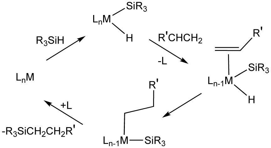 mech of hydrosilylation